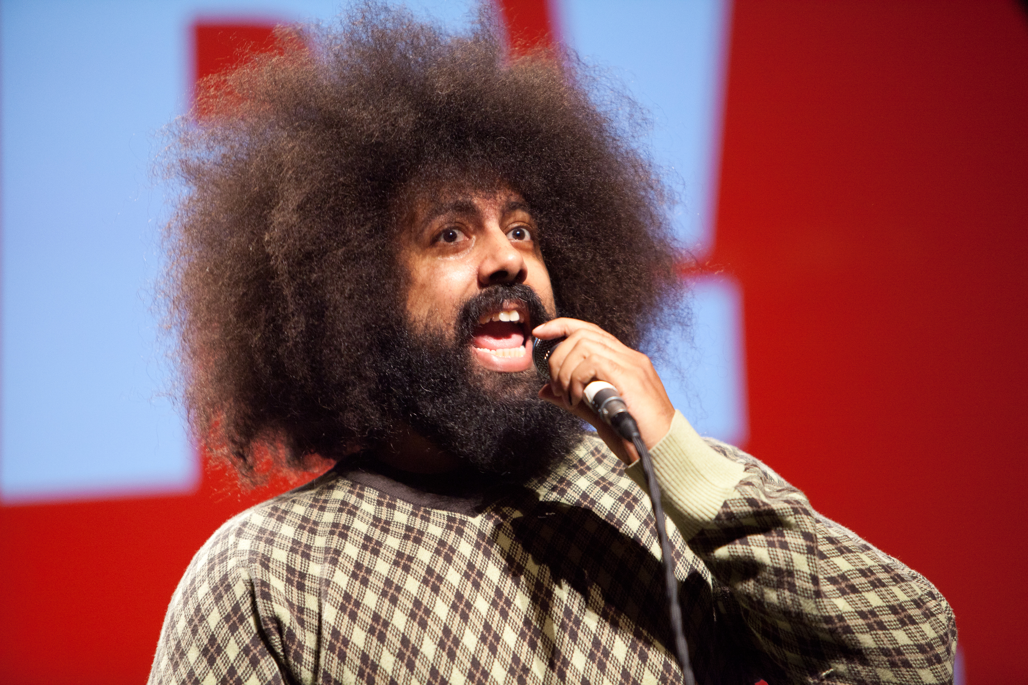 Reggie Watts performing at PopTech 2011.